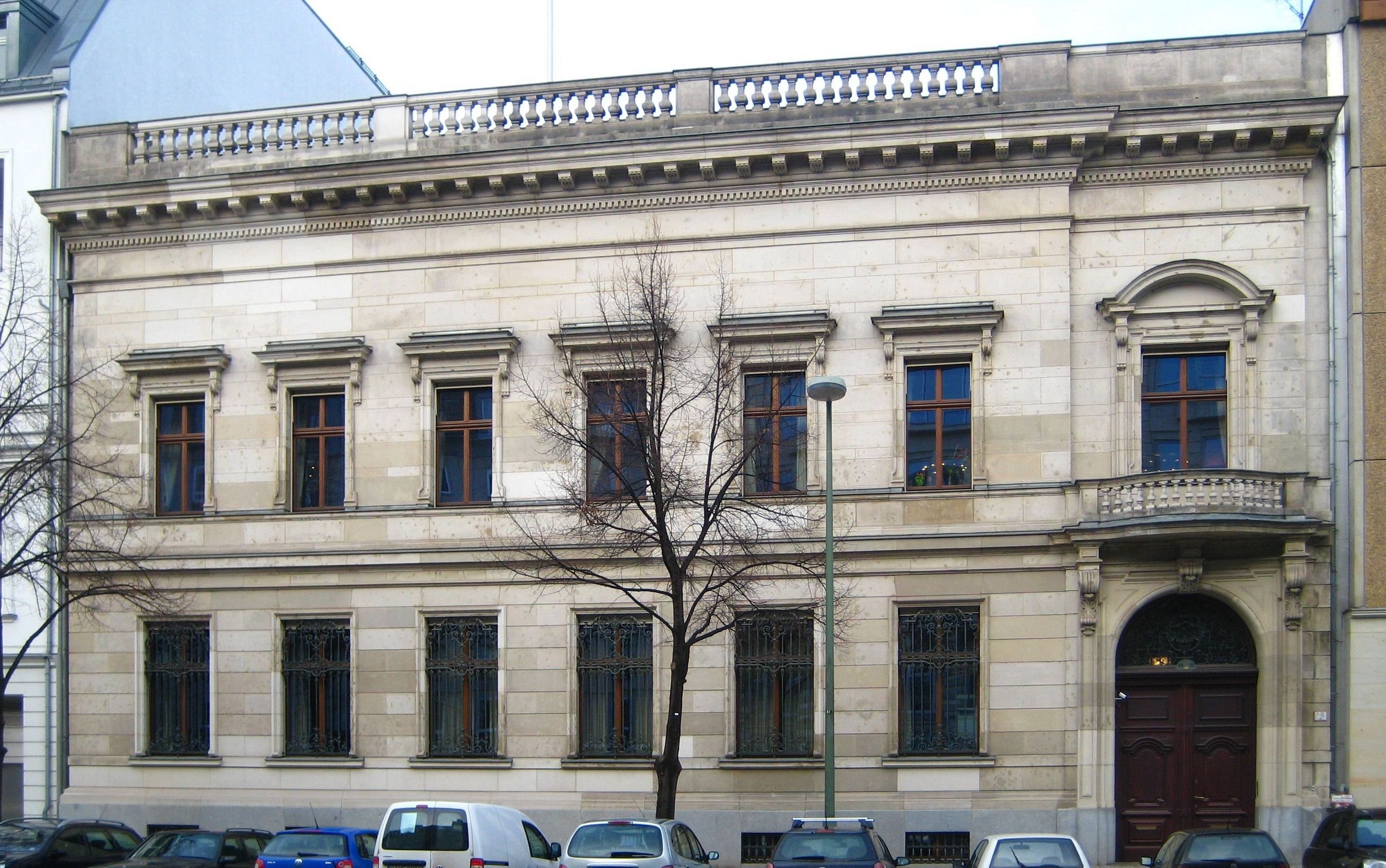 The former Bankhaus Mendelssohn & Co., Jägerstraße 49-50 in Berlin-Mitte; built 1891-1893 by architects Heino Schmieden and Rudolf Speer; landmarked building.